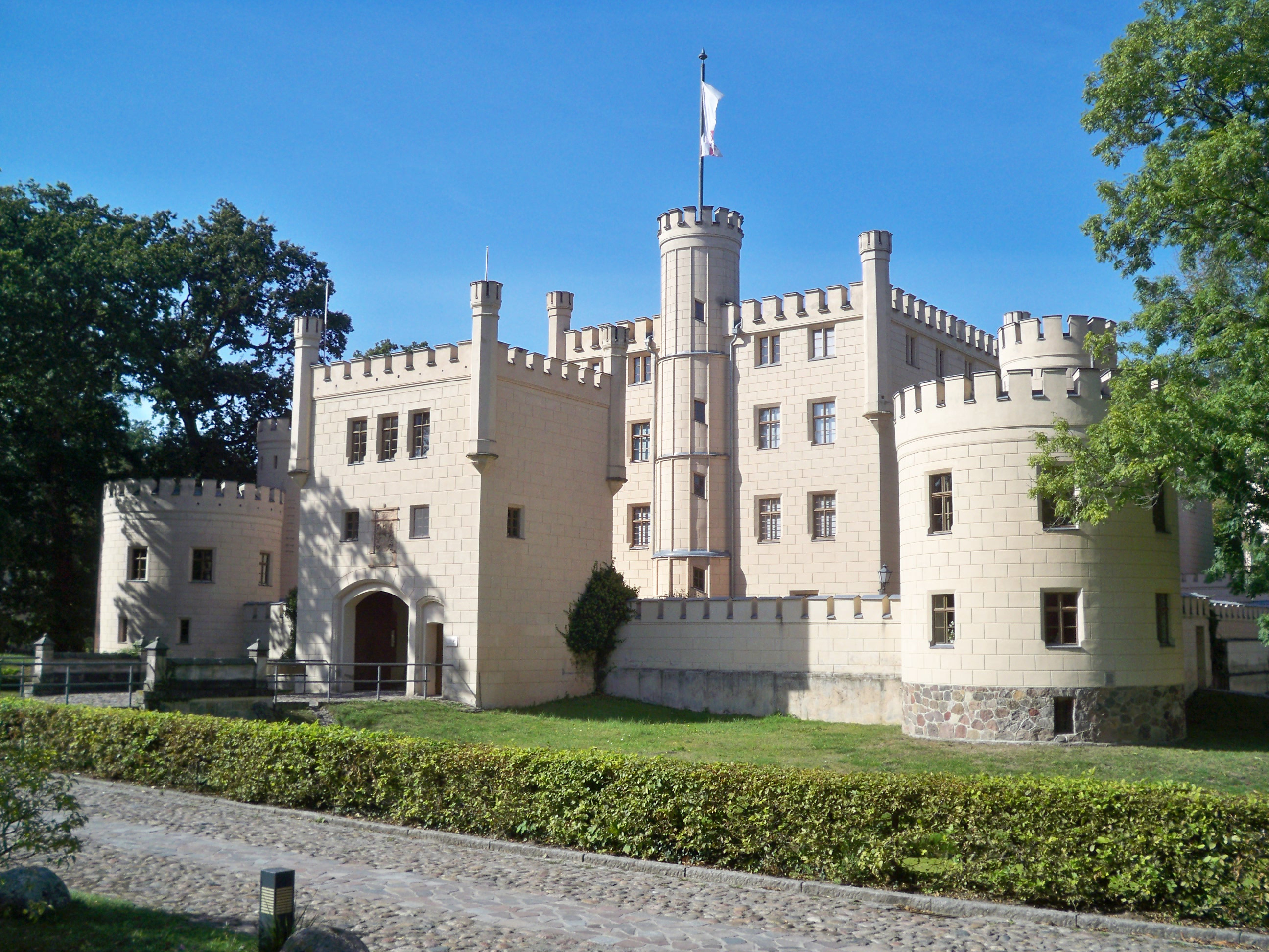 Letzlingen, Saxony-Anhalt, Schloss (castle)